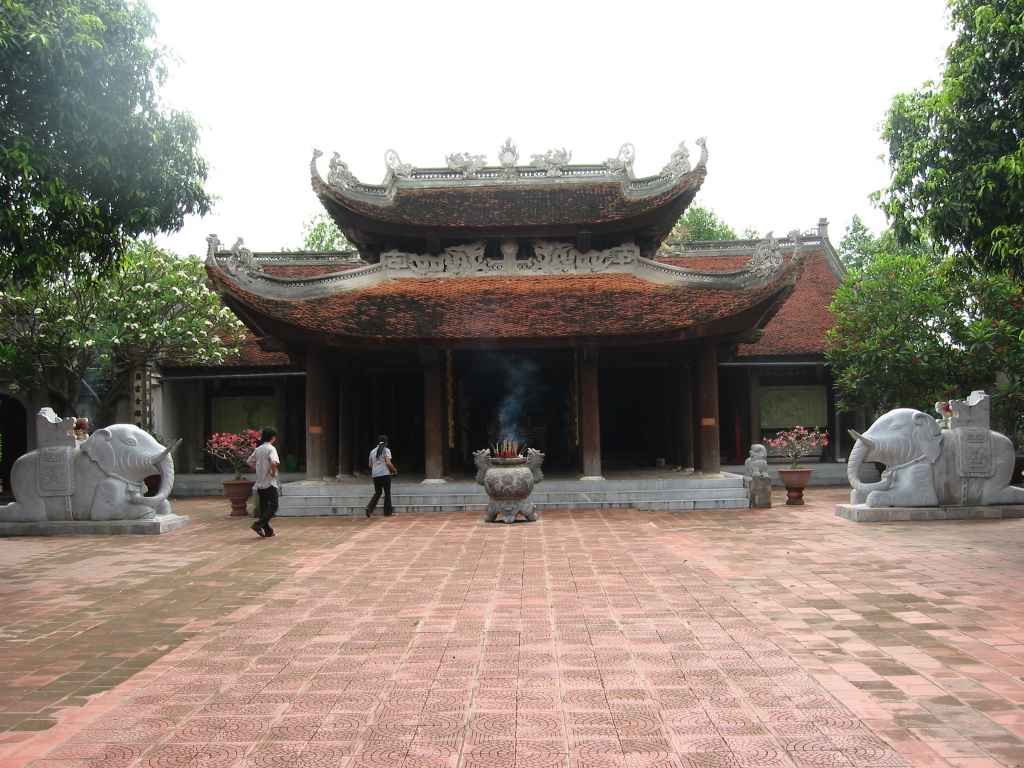 The main building of the Lý Bát Đế Shrine.